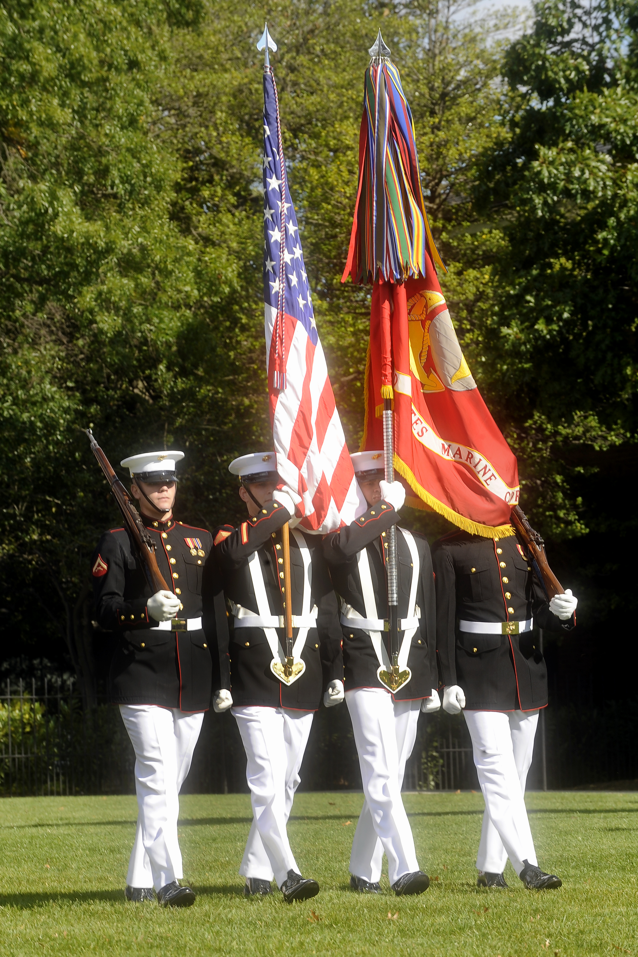 The color guard posts the colors during a Passage of Command of the United States Marine Corps ceremony at the Marine Barracks, Washington, D.C., Oct. 22, 2010. DOD photo by Cherie Cullen